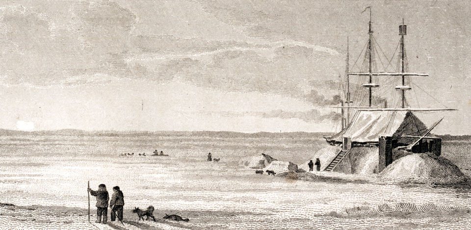 HMS Hecla, by George Lyon